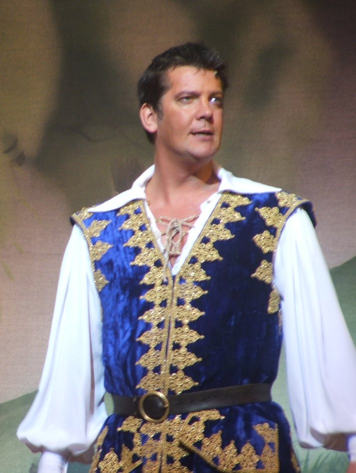 taken at Cliffs Theatre, Southend 2005/6